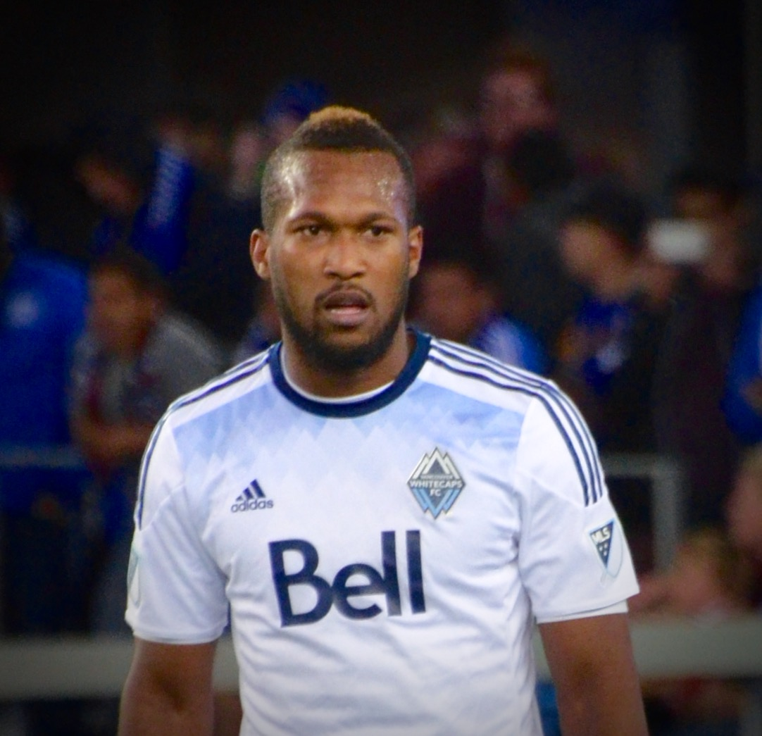 Kendall Waston of the Vancouver Whitecaps vs the San Jose Earthquakes at Avaya Stadium on 11 April 2015